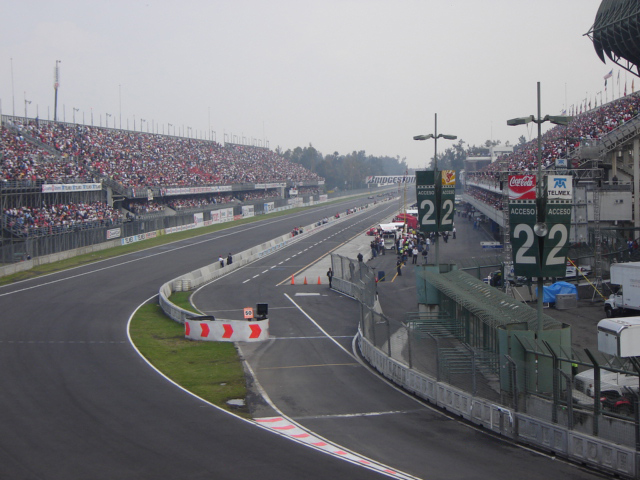 Champ Car Series_Final Race at Mex